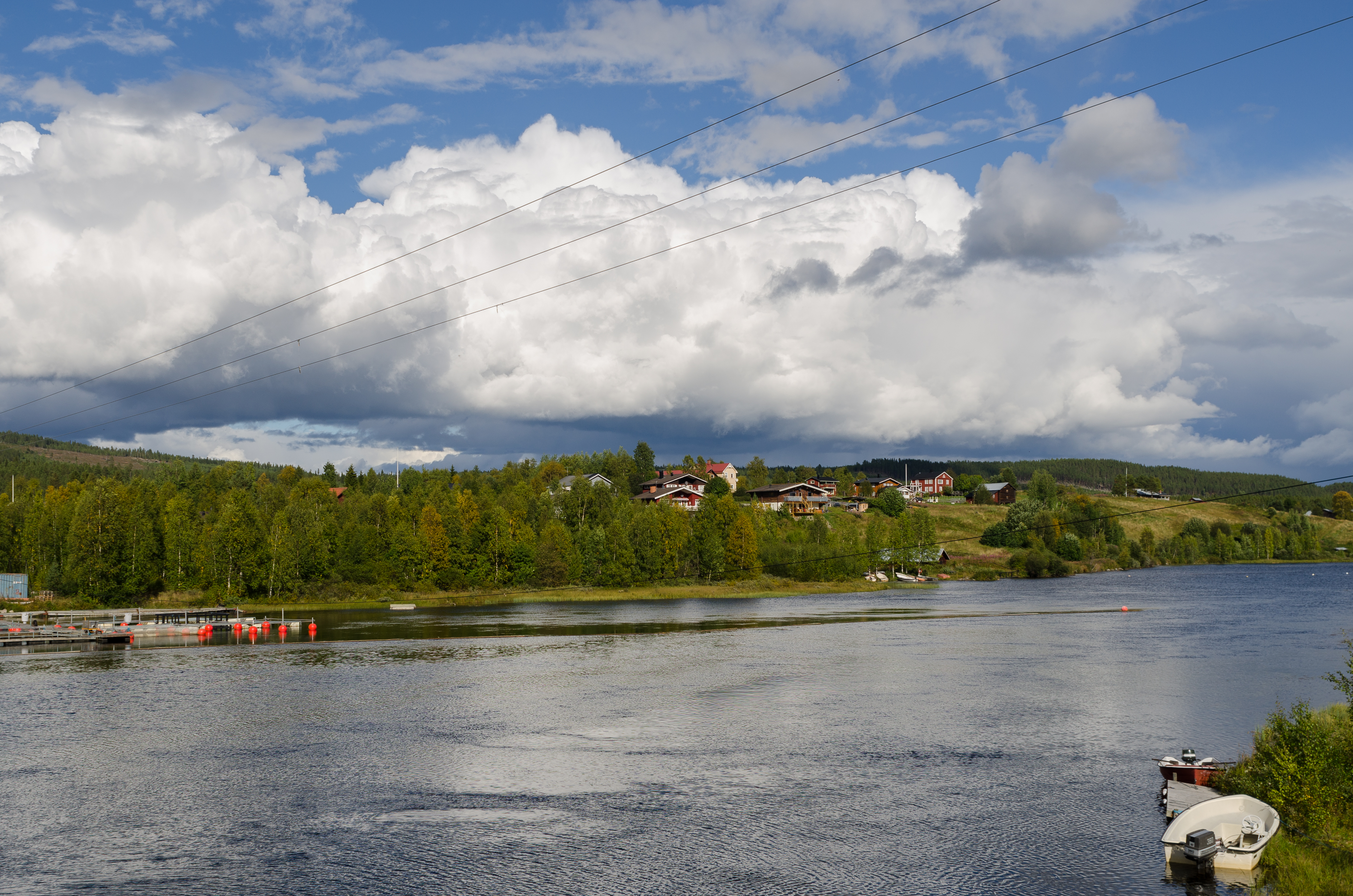 The river Ljusnan and the village Hedeviken in Härjedalen Municipality, Jämtland County, Sweden.